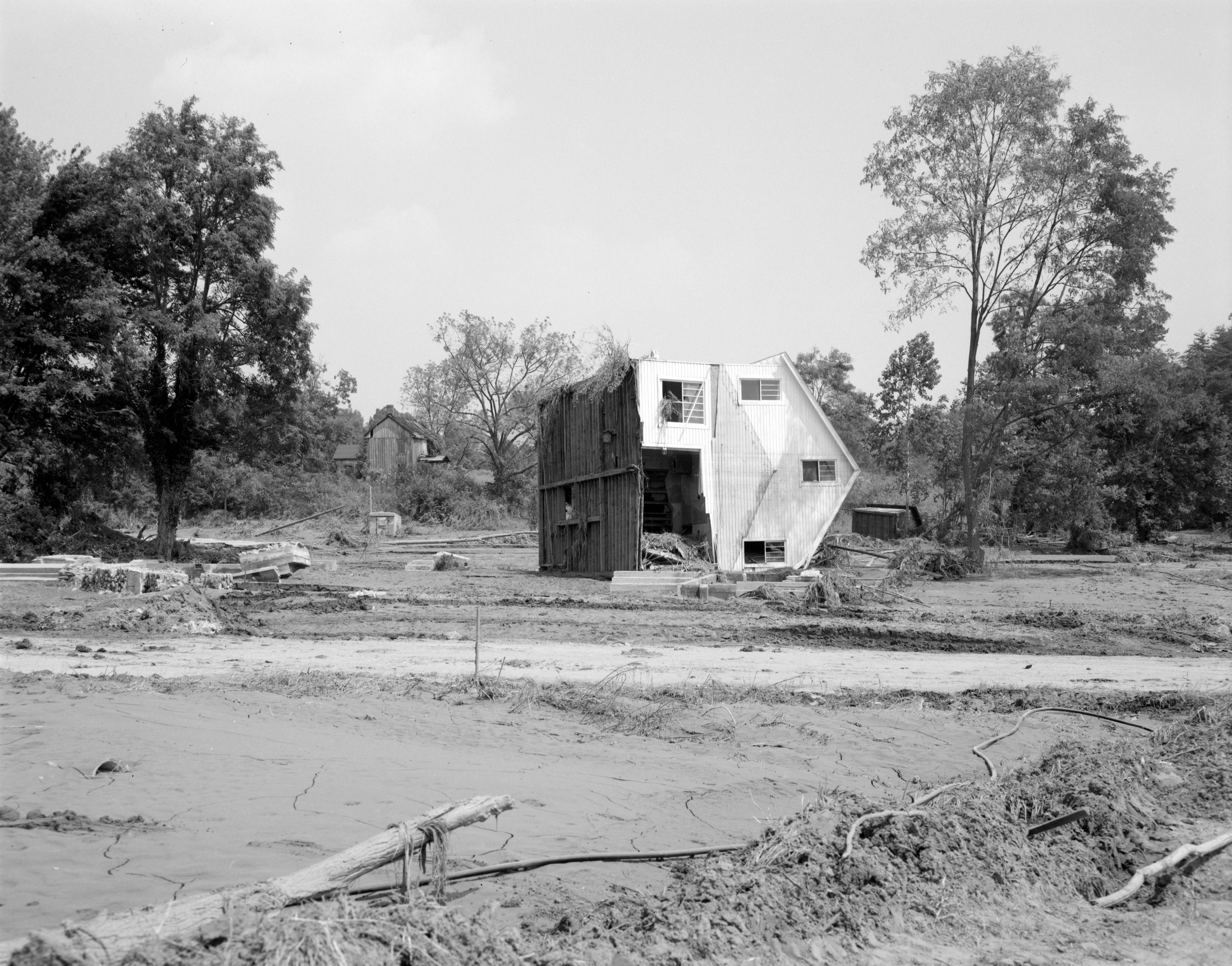 This Nelson county home has been literally turned on its side by the hurricane forces. Located on Rt. 655 at Roseland. No. 69-2201, Virginia Governor's Negative Collection, Library of Virginia.